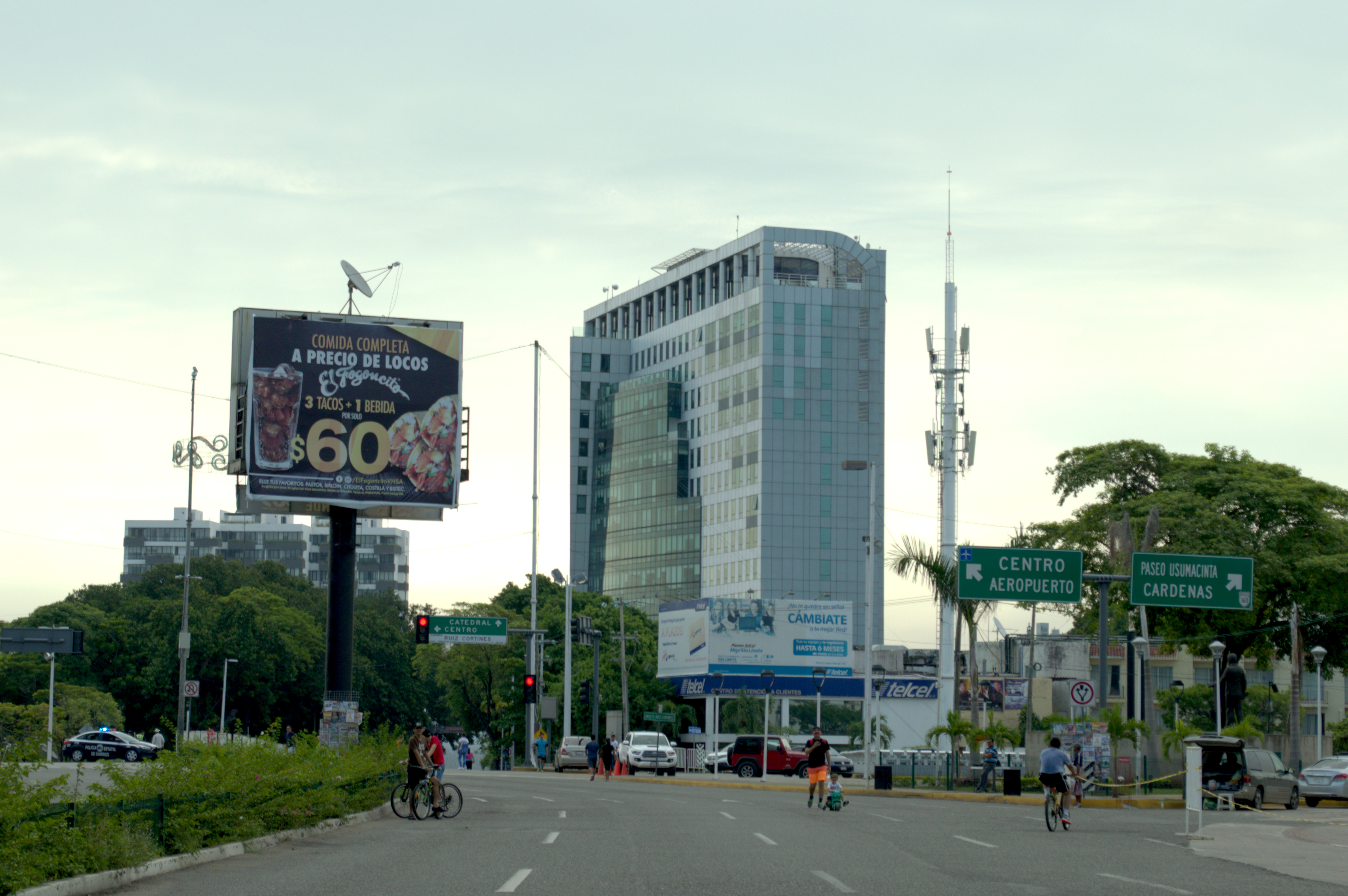 Enterprise Tower, seen from Paseo Tabasco Avenue in Villahermosa, Tabasco, Mexico.